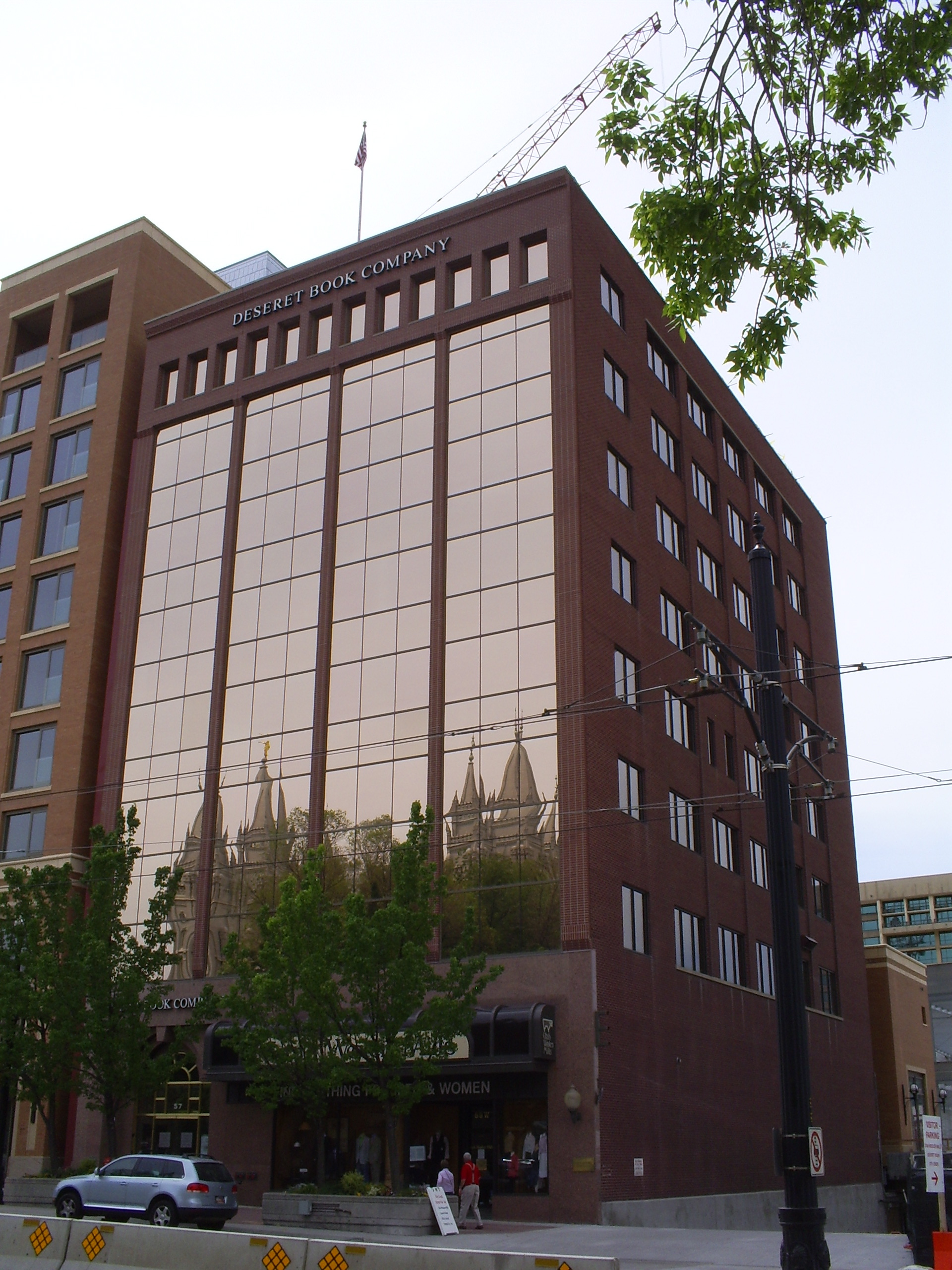 Deseret Book Company headquarters building, located at 45 West South Temple, Salt Lake City, Utah. Note the reflection of the Salt Lake Temple on the building glass, and the UTA TRAX wiring.